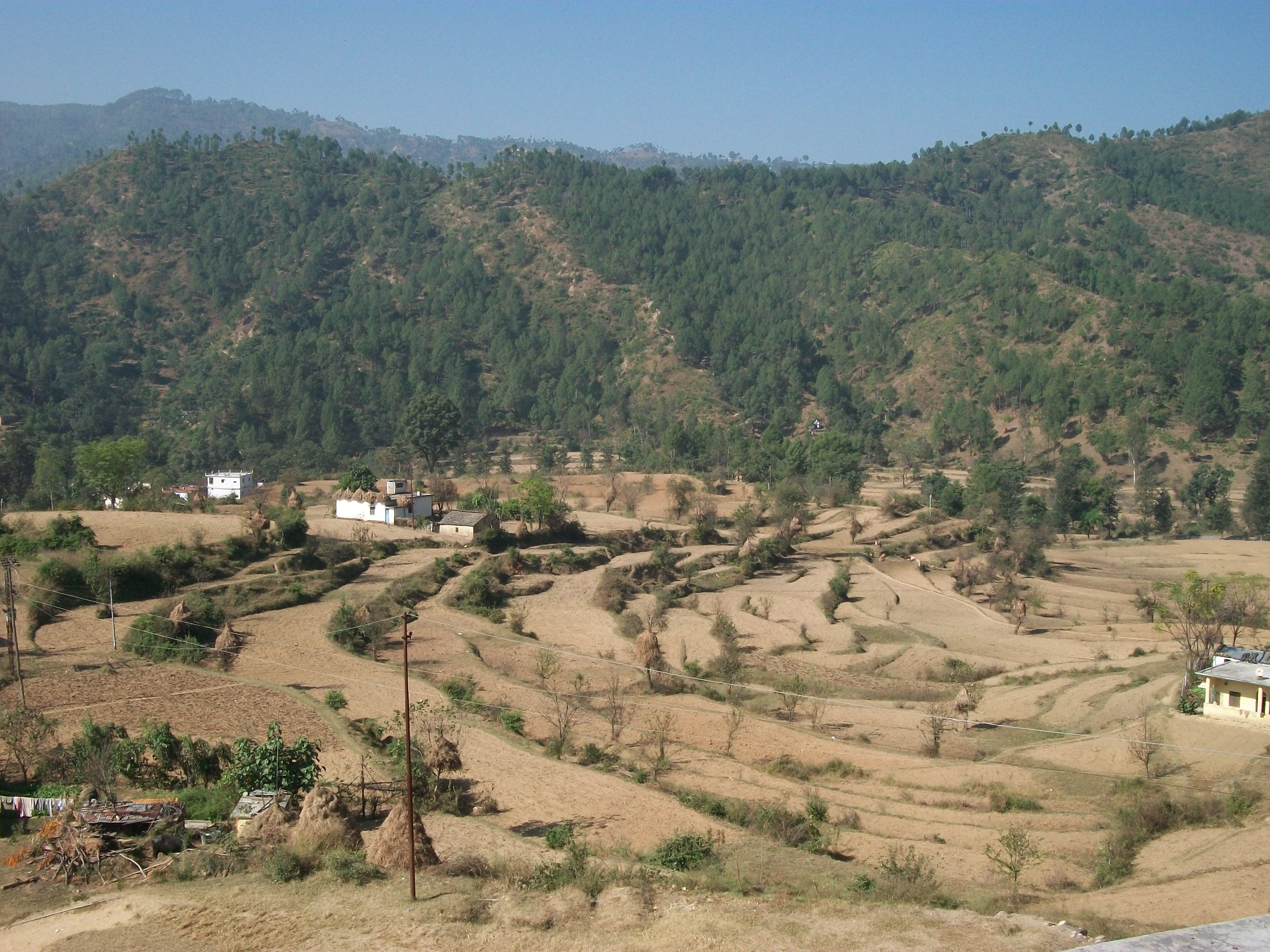 Jalali town.